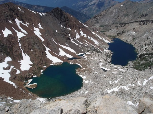 Franklin Lakes as viewed from the saddle between Franklin Pass and Mt. Florence near Mineral King, California.